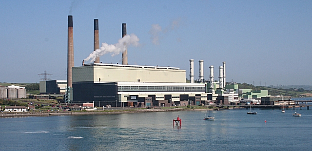 Ballylumford power station: A large and prominent landmark on the east shore of Larne Lough.